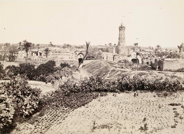 The Old Town, Gaza.